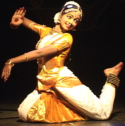 A dancer of Sri Devi Nrithyalaya.